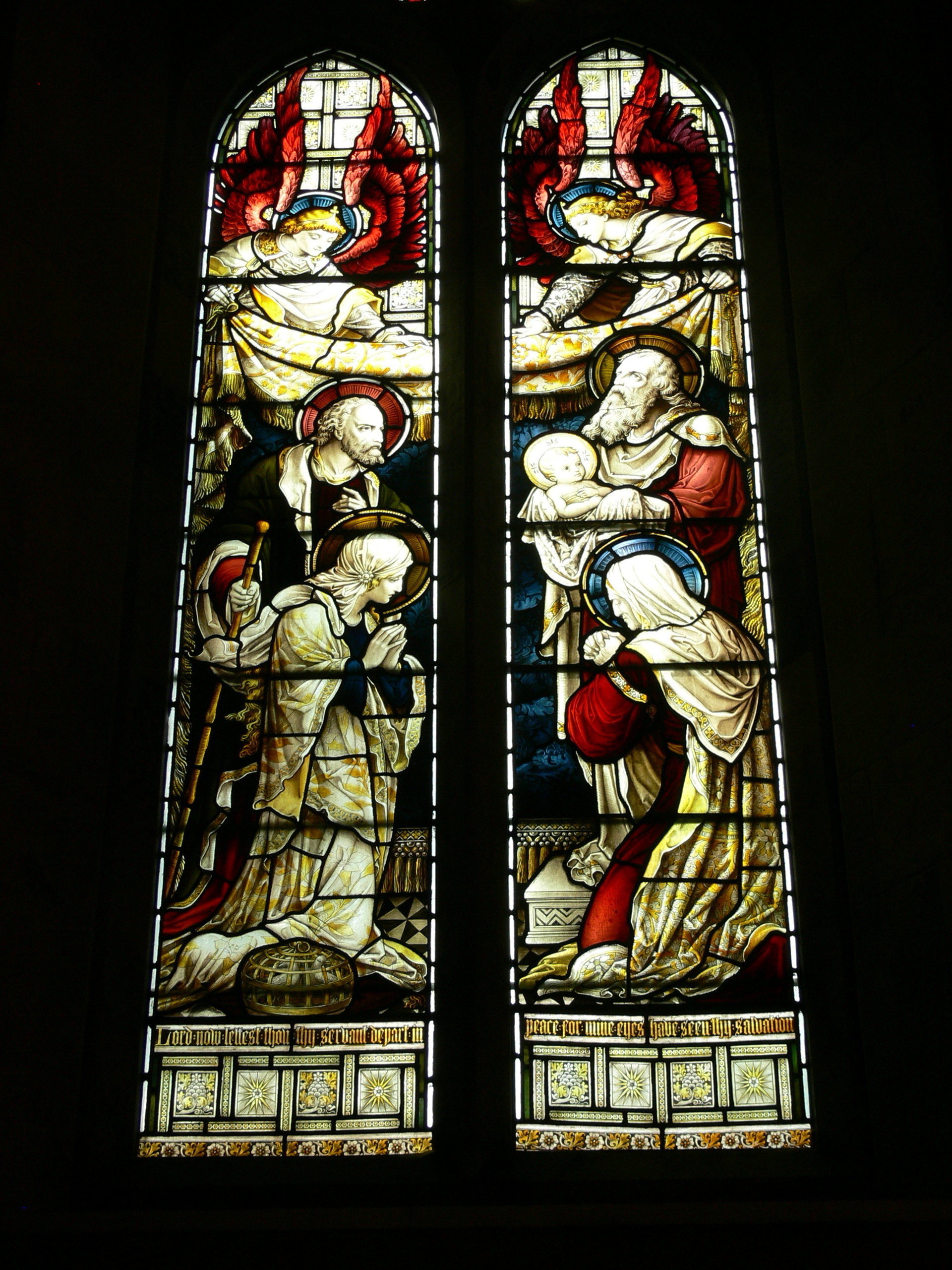 Saint Albans English church ( Copenhagen ). Stained glass window ( 1890 ) showing the "Nunc dimittis"-scene: While being presented as a child in the temple the old Simeon recognises Jesus as the expected Messiah.